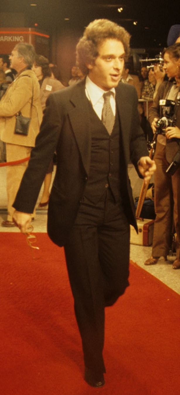 Photo of screenwriter Paul Jabara at the premiere of The Rose.